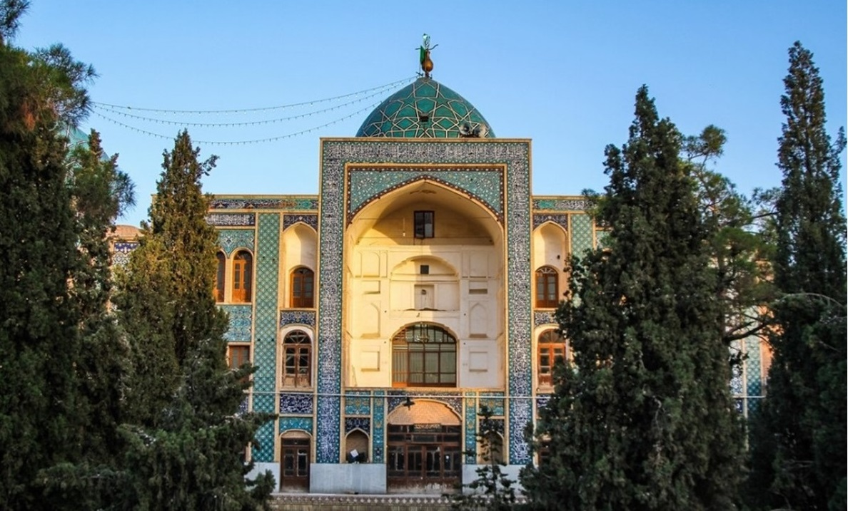 Shahzadeh-hosein